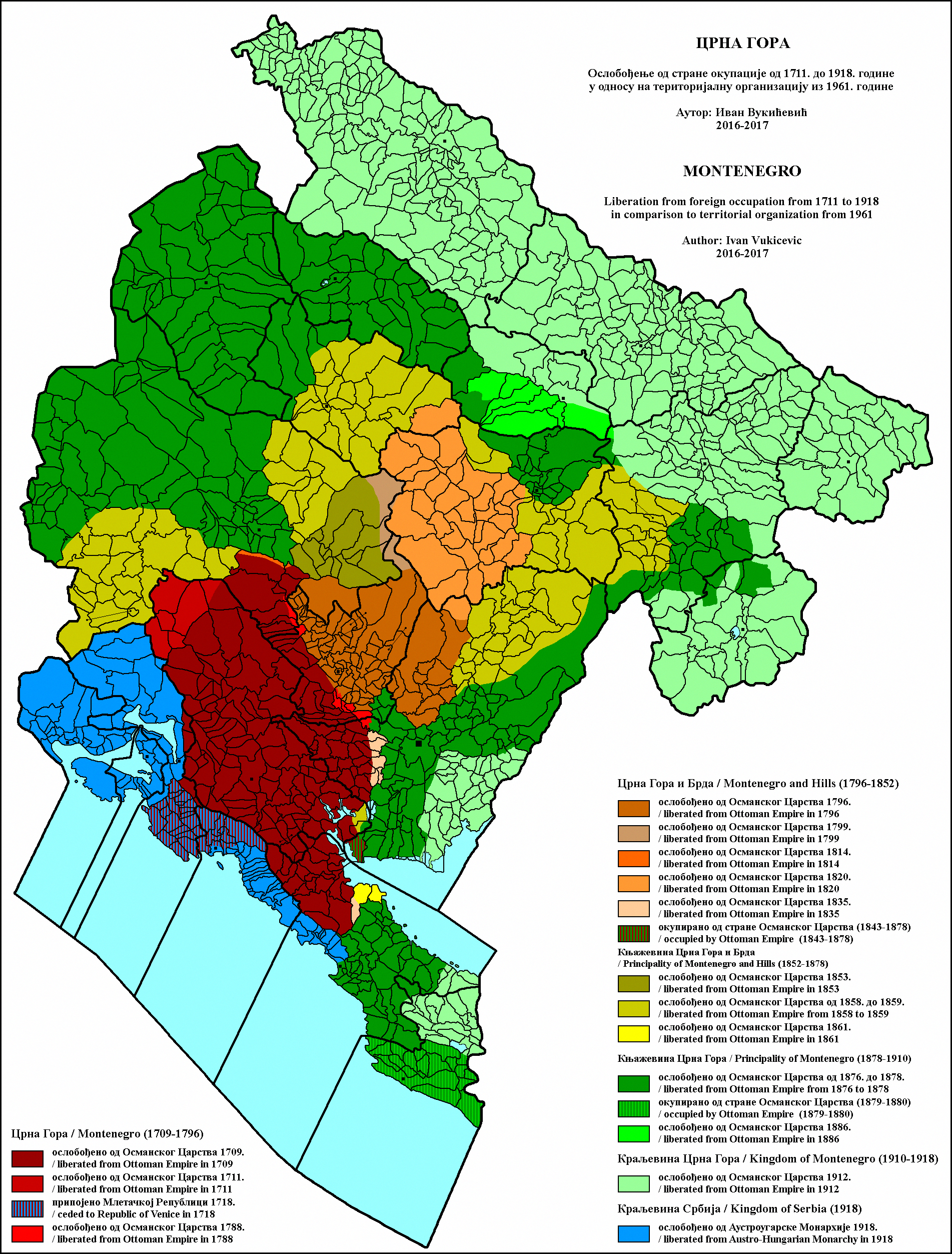 Liberation of Montenegro from foreign occupation from 1711 to 1918. Author: Ivan Vukicevic